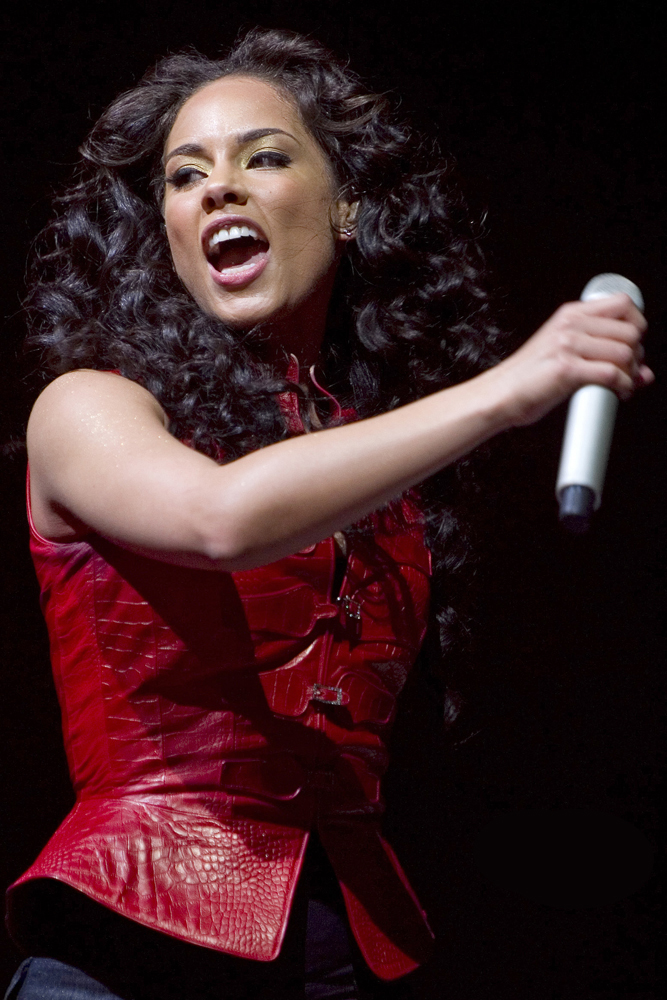 Alicia Keys at Pavilhão Atlântico (Lisbon, Portugal) on March 19, 2008